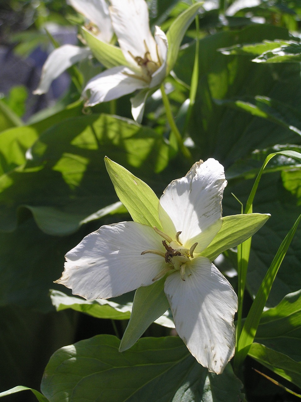 オオバナノエンレイソウ Trillium_kamtschaticum